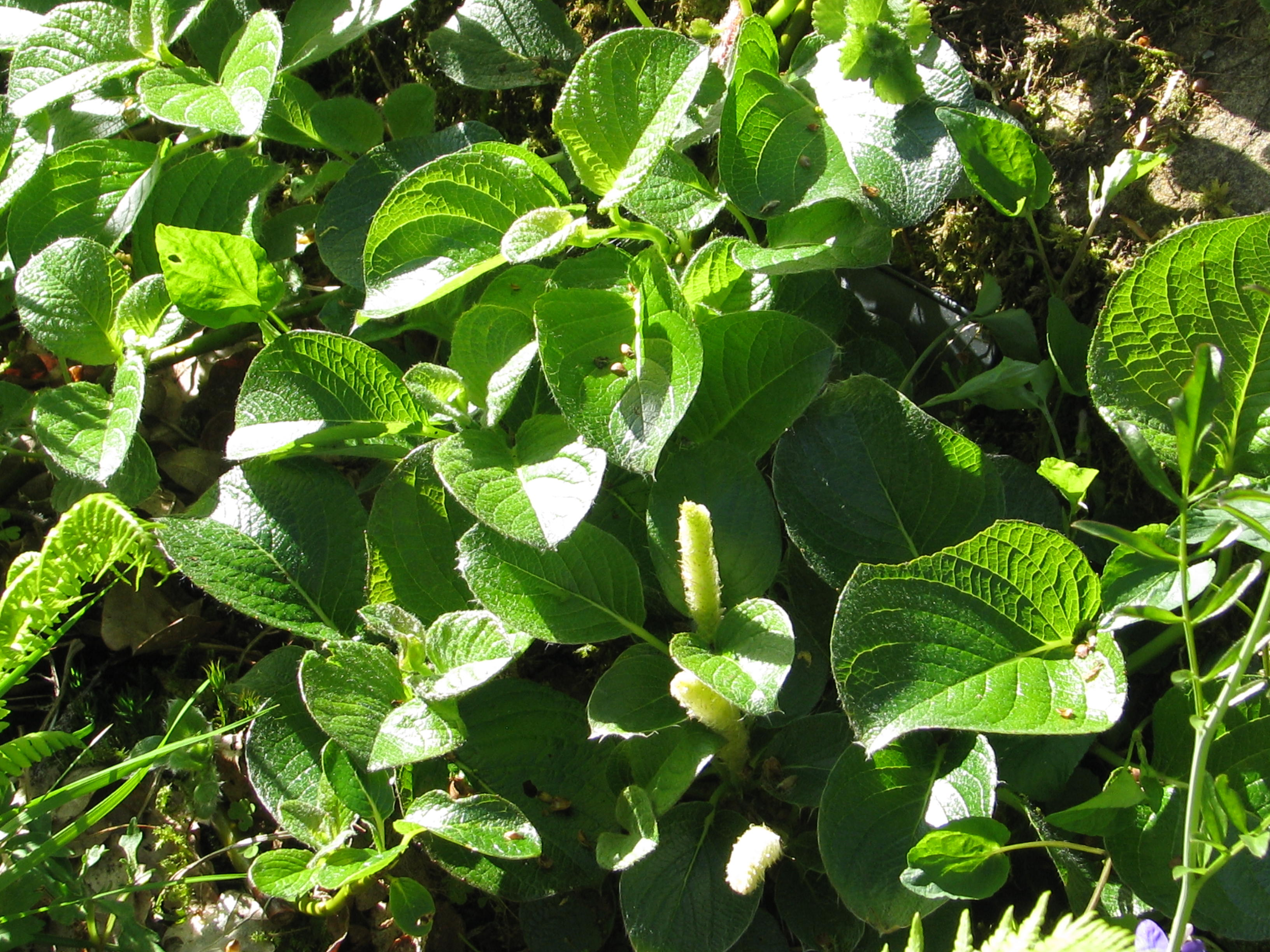 A larger version of the little Arctic S.reticulata. Nice but deceptively invasive!